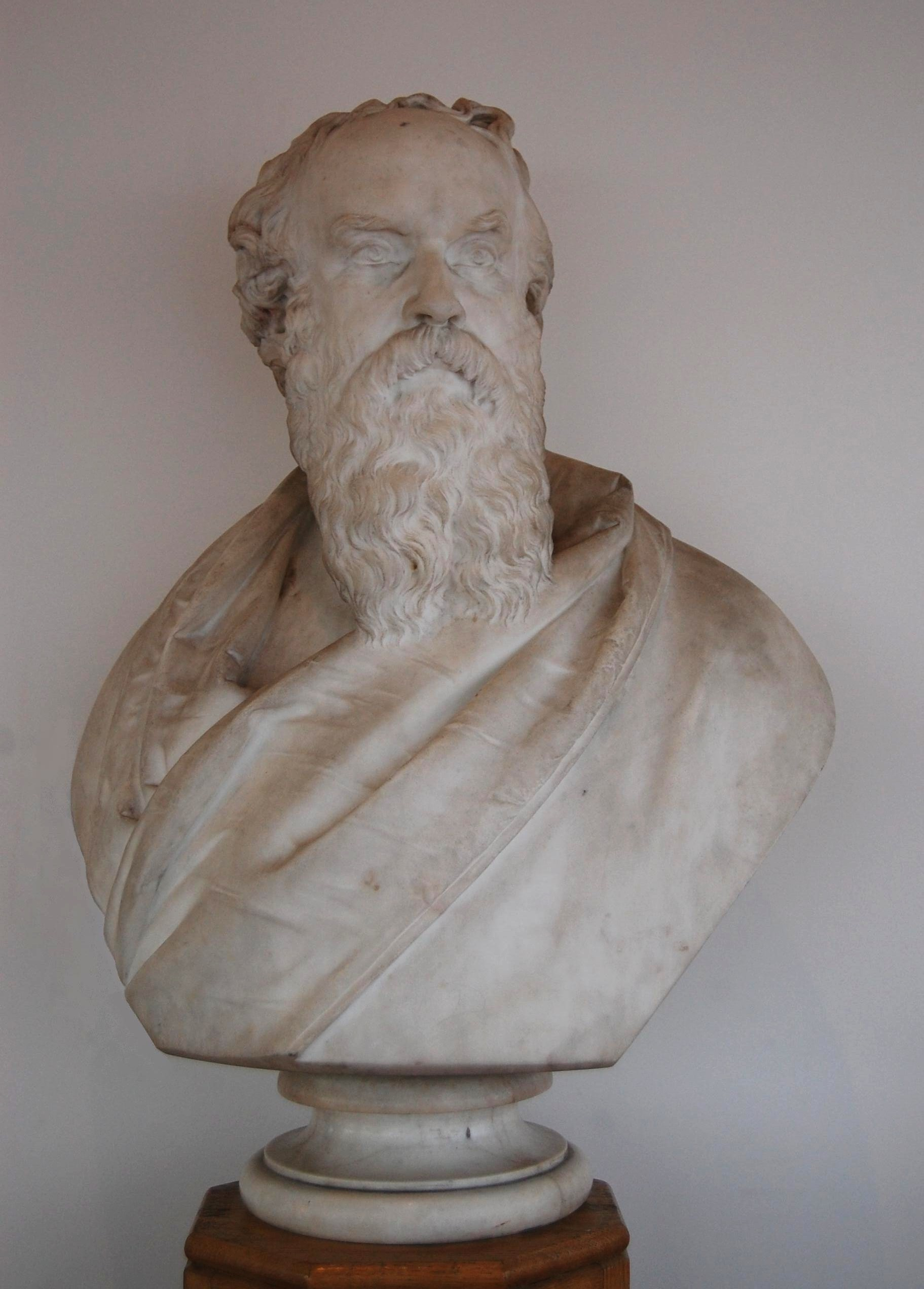 Bust of Samuel Timmins (1826-1902) by F.J. Williamson (1833-1920) in the Library of Birmingham, seen during a preview tour in the week before opening.